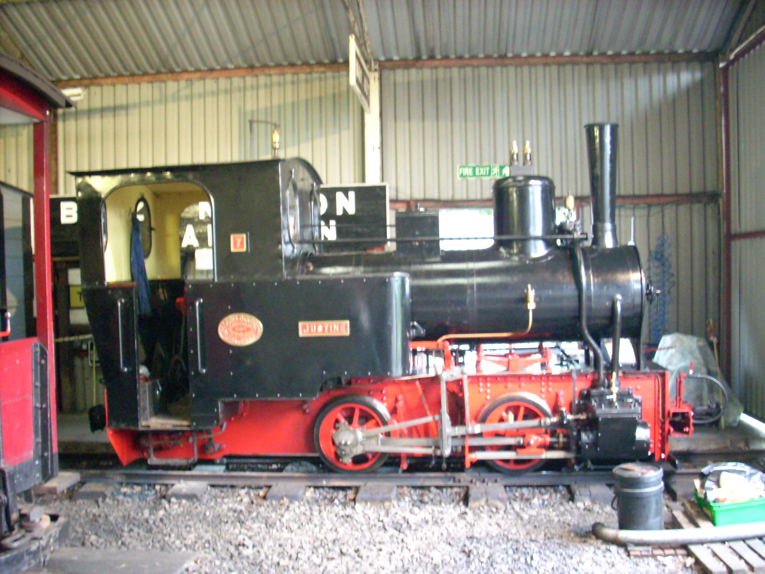 Jung loco Justine on shed at North Gloucestershire Narrow Gauge railway